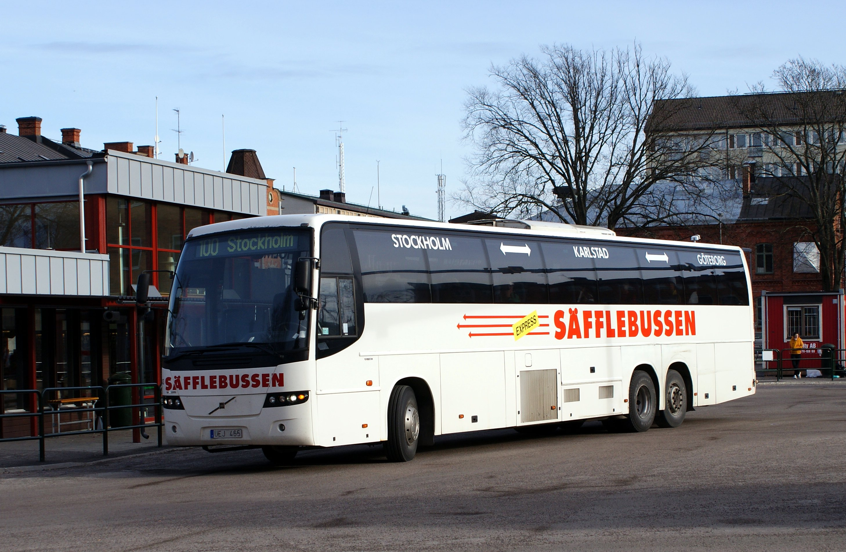 Säfflebussen at the bus station in Karlstad, Sweden. Volvo 9700H 6x2 coach (reg. UEJ 465) with Volvo B12M chassis, built 2004.